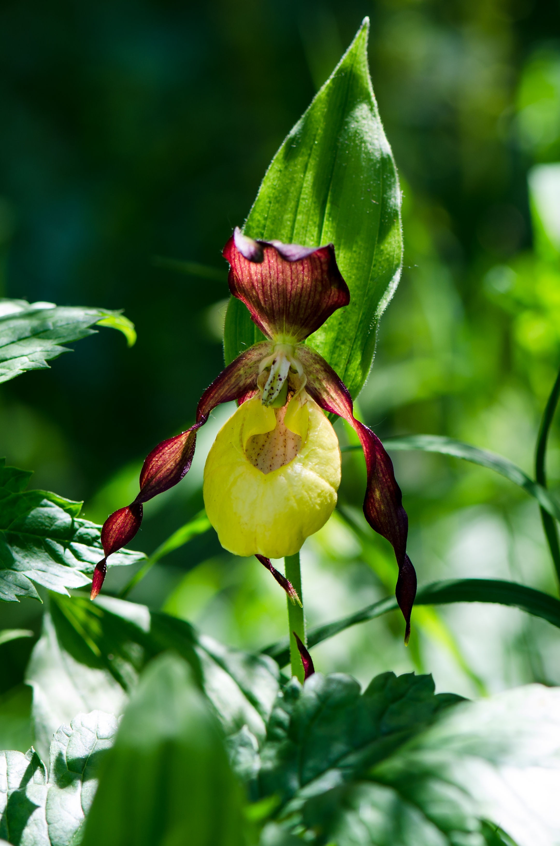 Yellow Lady's-Slipper (Cypripedium calceolus)